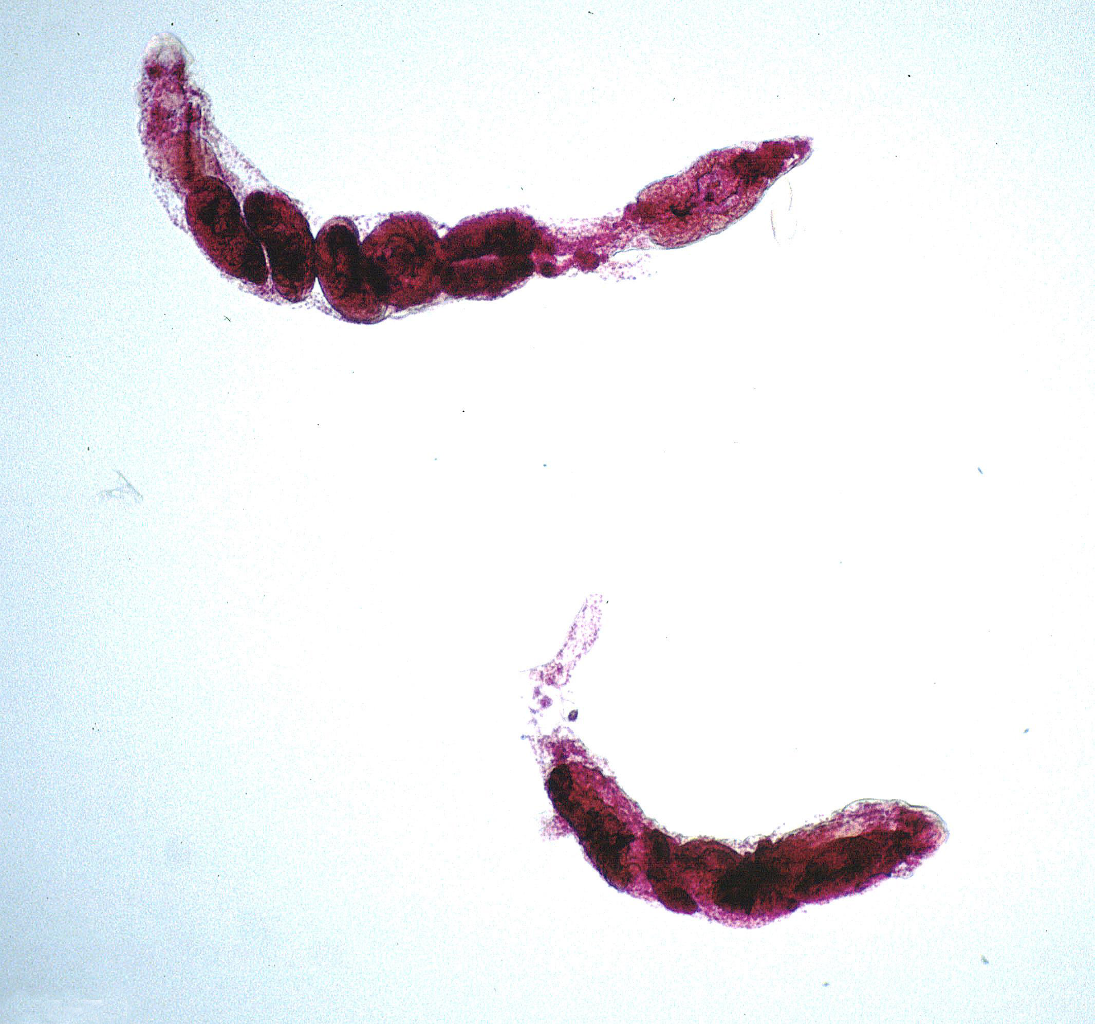 Redia larval stage of Fasciola liver fluke. This stage proliferates within tissue of snail intermediate host.